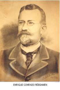 Rébsamen